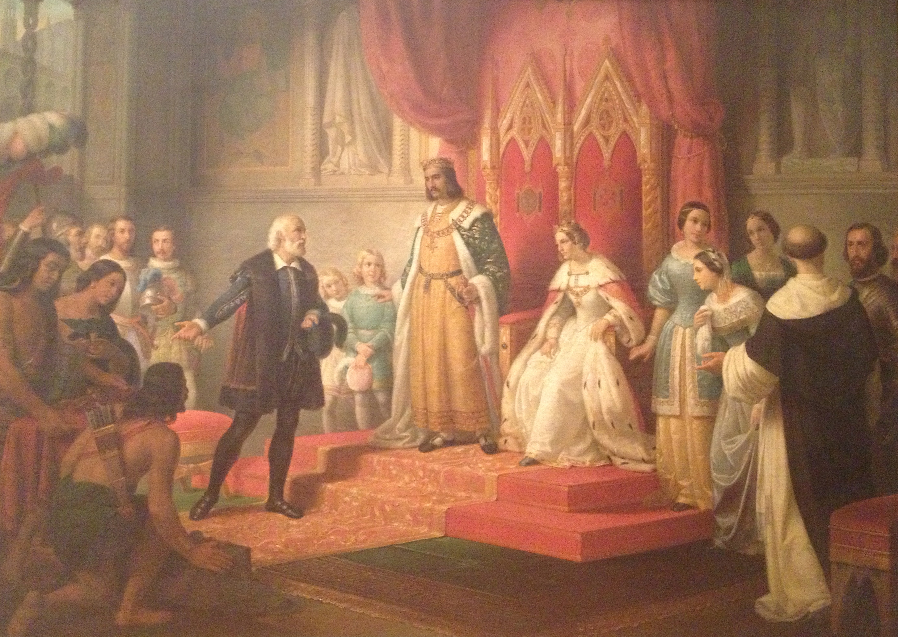 Christopher Columbus in the court of the Catholic Monarchs.label QS:Les,"Cristobal Colon en la corte de los Reyes Catolicos" label QS:Len,"Christopher Columbus in the court of the Catholic Monarchs."